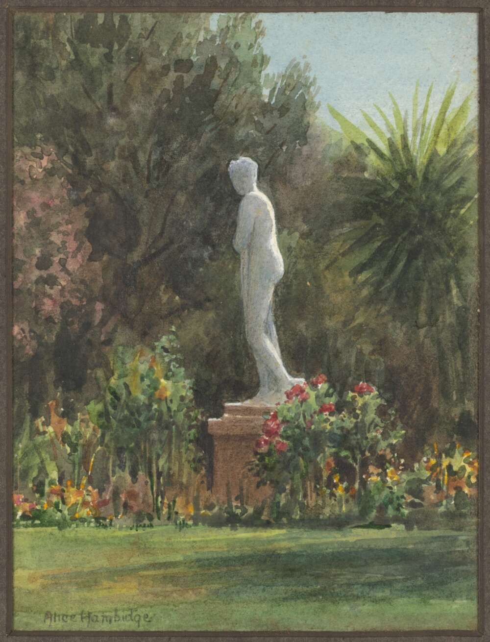 Statue of Venus, North Terrace, Adelaide, c.1909 - painting by Alice Hambidge (1869-1947)